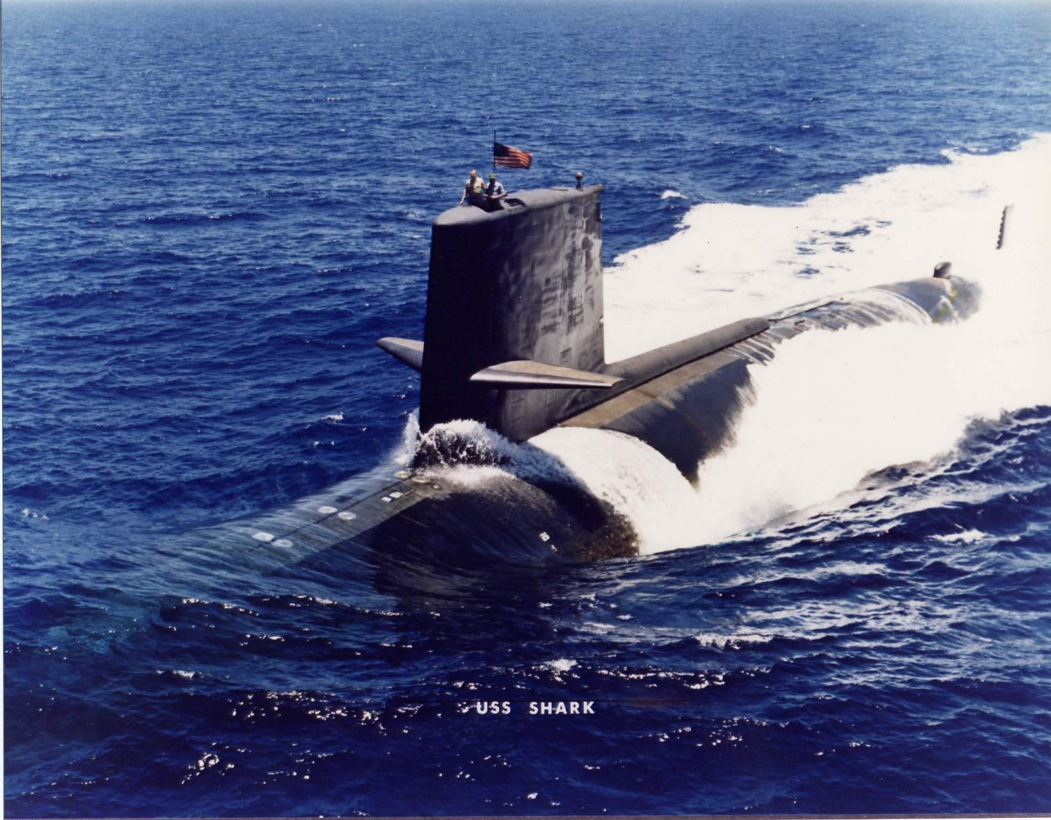 The Skipjack Class attack submarine USS Shark (SSN-591) underway in the early 1980s.